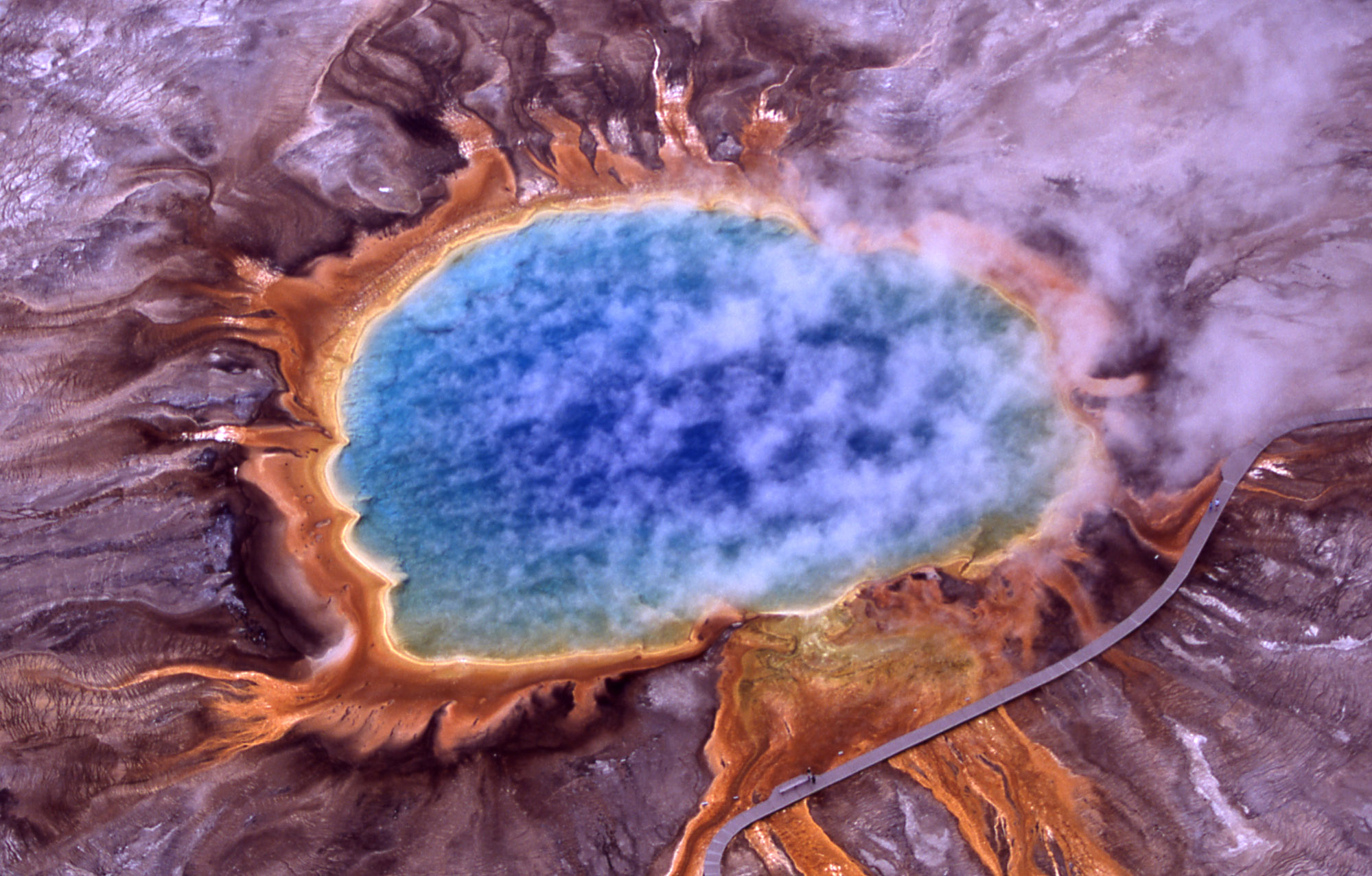 Aerial view of Grand Prismatic Spring; Hot Springs, Midway & Lower Geyser Basin, Yellowstone National Park. The spring is approximately 250 by 300 feet (75 by 91 m) in size. This photo shows steam rising from hot and sterile deep azure blue water (owing to the light absorbing overtone of an OH stretch which is shifted to 698 nm by hydrogen bonding [1]) in the center surrounded by huge mats of brilliant orange algae, bacteria and archaea. The color of which is due to the ratio of chlorophyll to carotenoid molecules produced by the organisms. During summertime the chlorophyll content of the organisms is low and thus the mats appear orange, red, or yellow. However during the winter, the mats are usually dark green, because sunlight is more scarce and the microbes produce more chlorophyll to compensate, thereby masking the carotenoid colors.